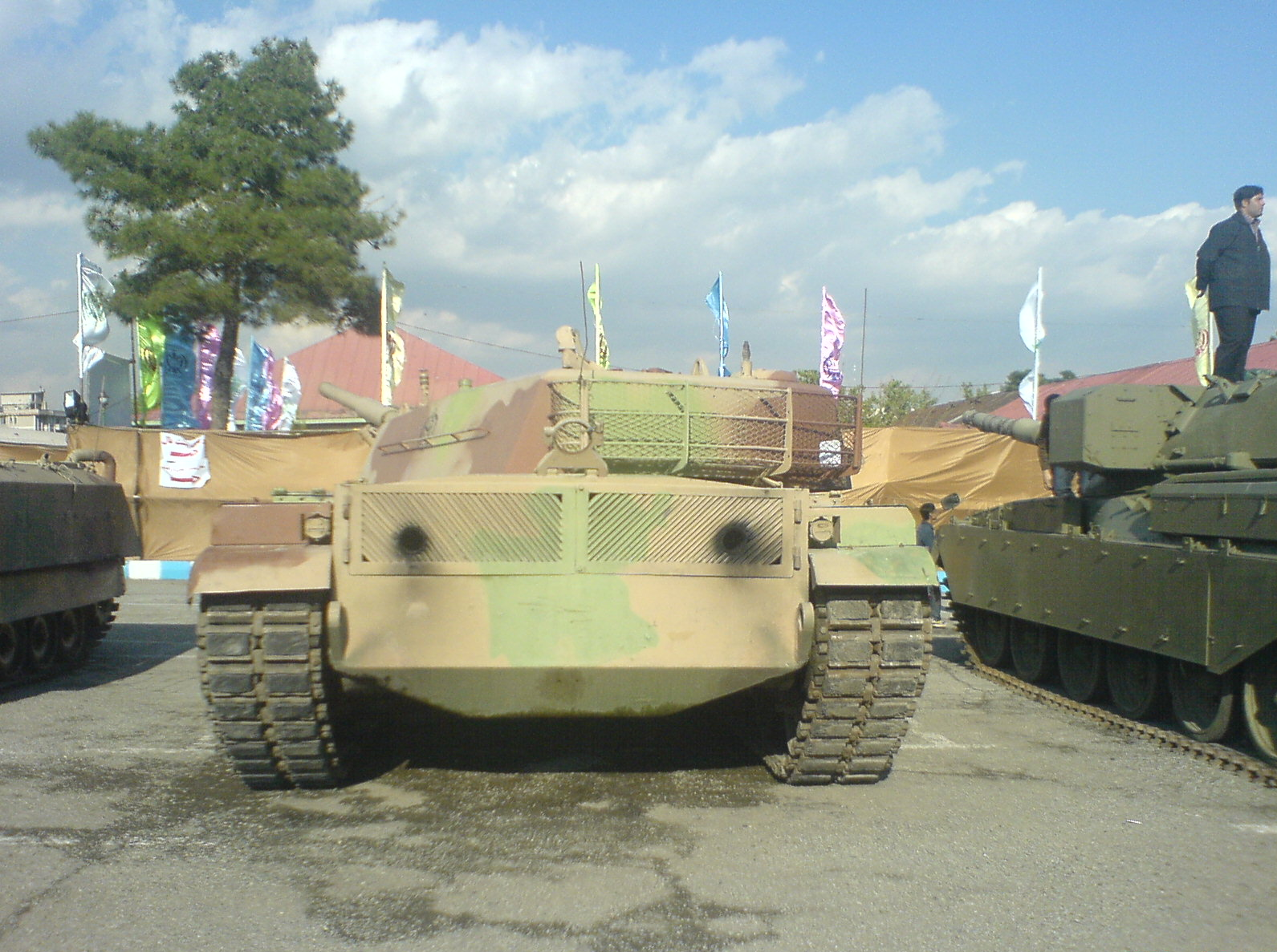 A Zulfiqar tank of the Iranian Army from behind.